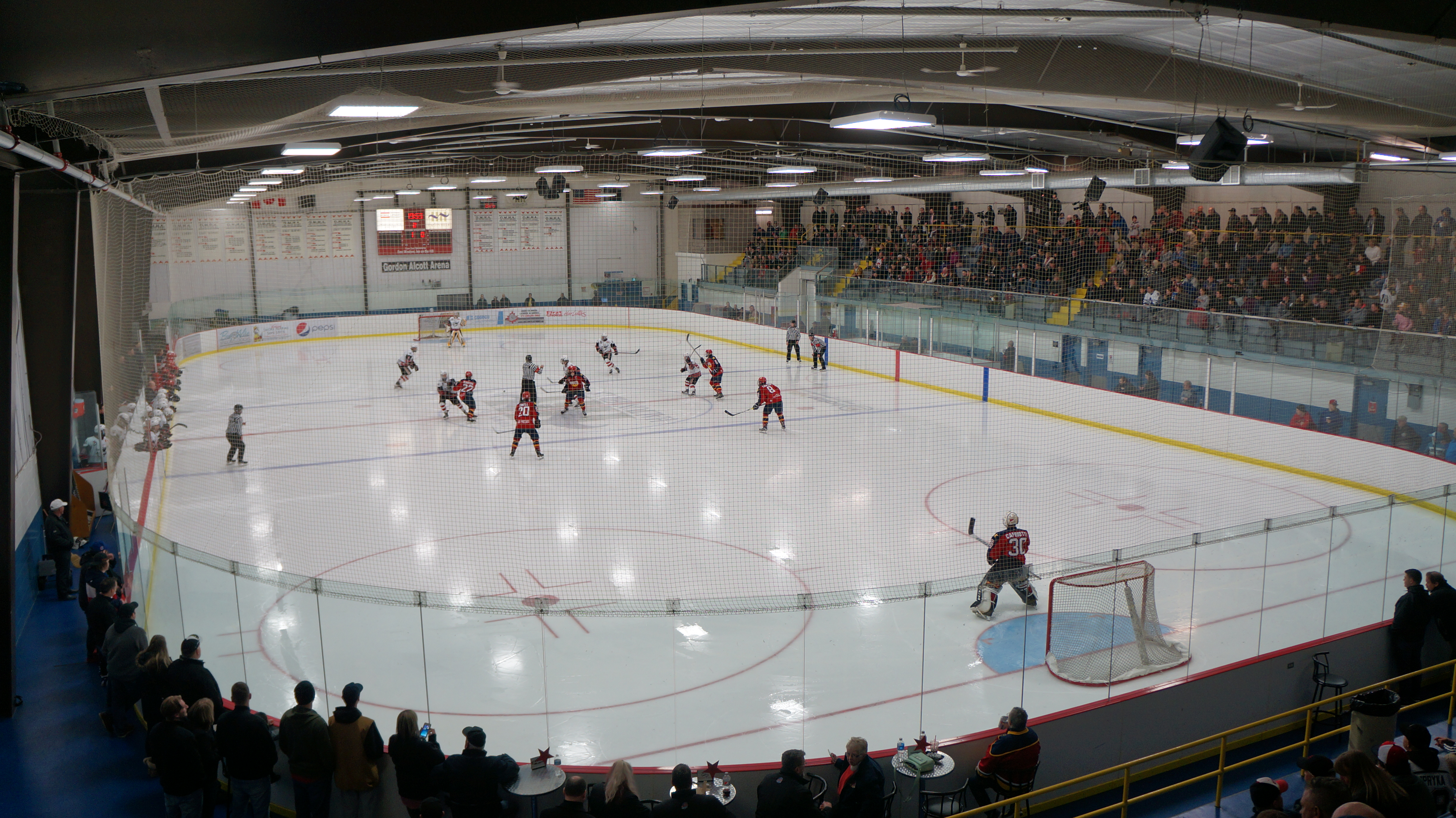 The Georgetown Raiders hosting the Wellington Dukes at the Mold-Masters SportsPlex Park in Georgetown, Ontario on April 21,2018.